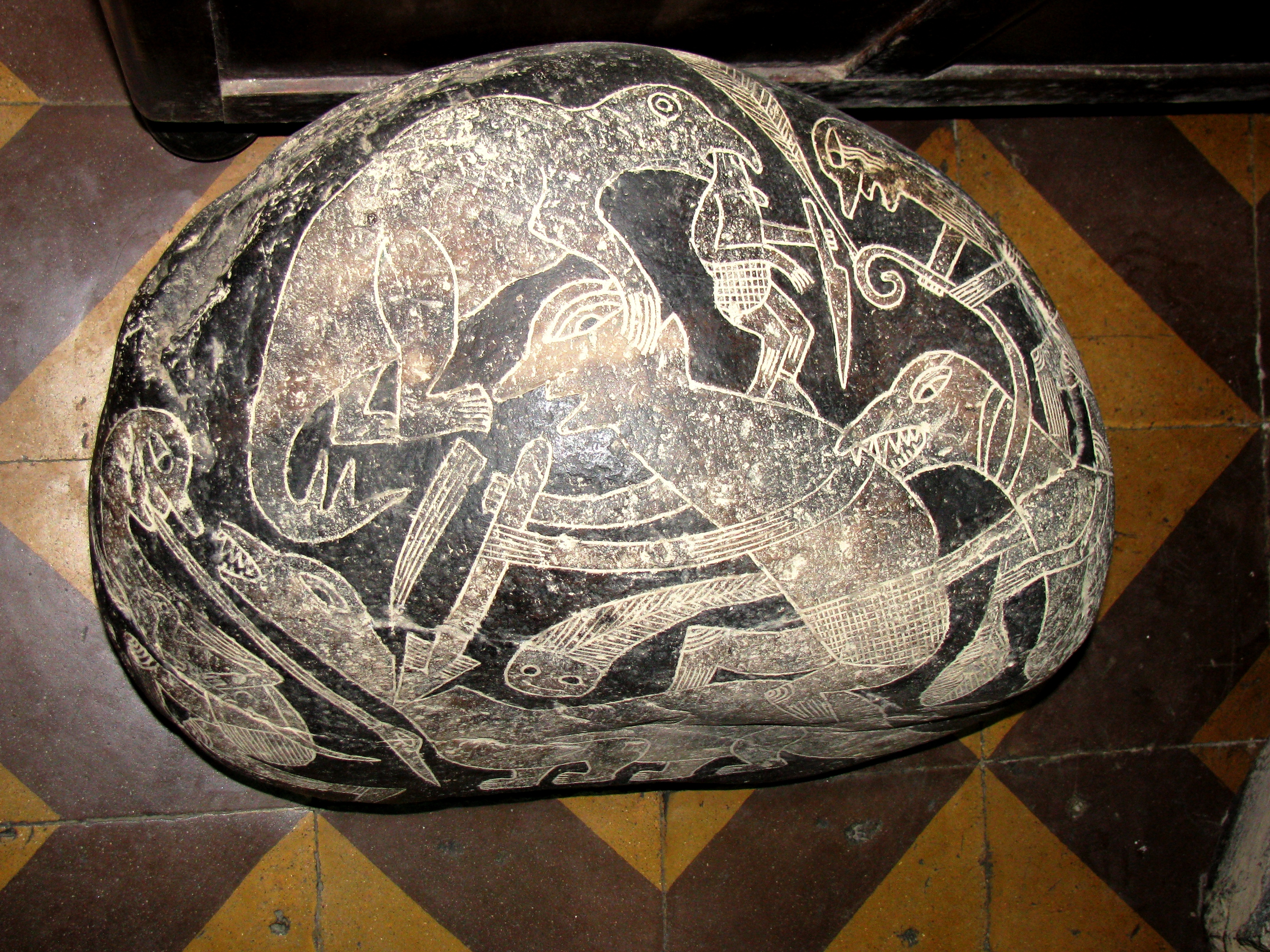 Ica stones